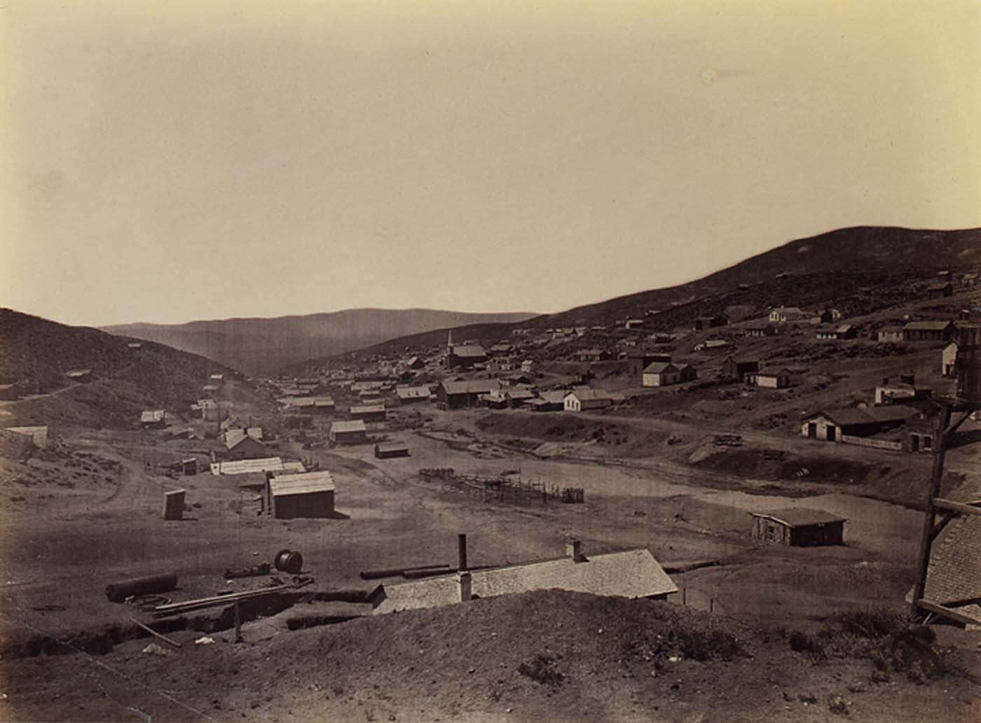 Austin, Nevada (King Survey), 1868 Artist: Timothy H. O'Sullivan, born Ireland 1840-died New York City 1882 Type: Photography-Photoprint Date: 1868 Topic: Landscape\bird's eye view Cityscape\Nevada\Austin Object number: 1994.91.132 Medium: albumen print on paper mounted on paperboard Credit Line: Smithsonian American Art Museum, Museum purchase from the Charles Isaacs Collection made possible in part by the Luisita L. and Franz H. Denghausen Endowment Persistent URL: Repository:Smithsonian American Art Museum View more collections from the Smithsonian Institution.